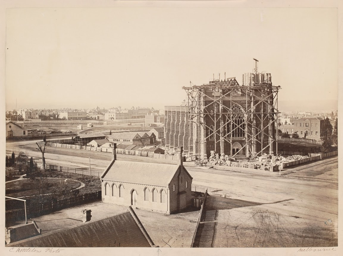 Photograph of St. Patrick's Cathedral with scaffolding at front, and St. Patrick's School, Eastern Hill, Melbourne, ca. 1866